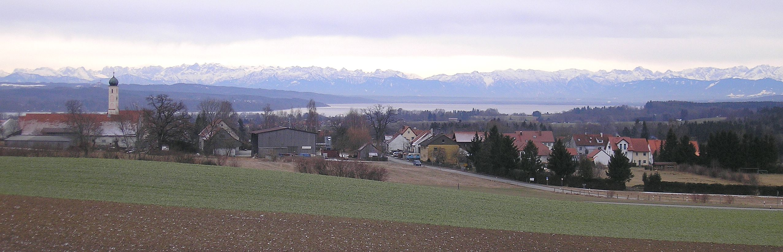 Zankenhausen (Municipality Türkenfeld, Landkreis Fürstenfeldbruck, Upper Bavaria, Germany). Looking south to the Ammersee and the Alps